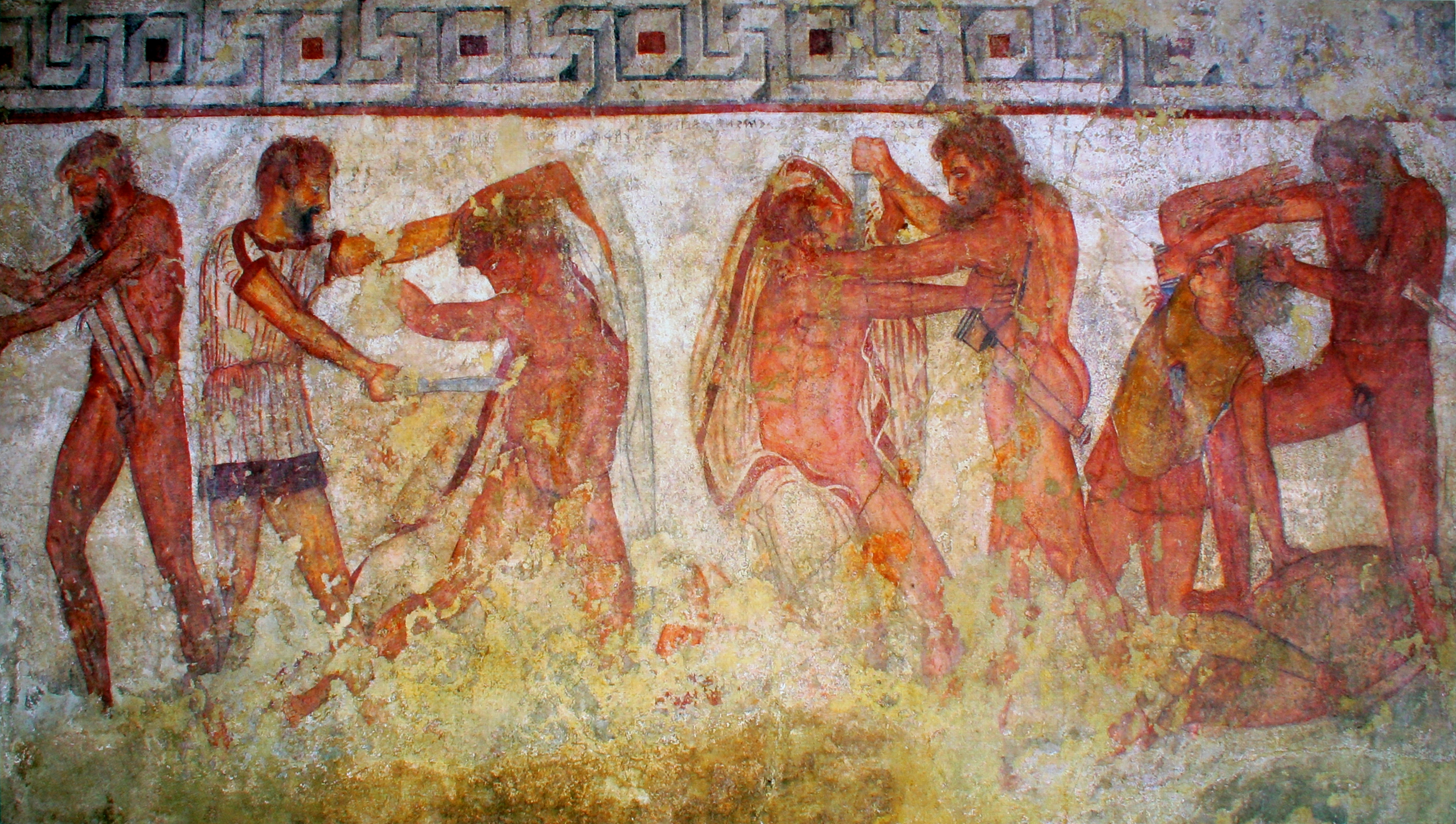 Liberation of Caelius Vibenna, tomb of François, Ponte Rotto, Italy. From left to right: Mastarna, Larth Ultes, Laris Papathnas Velznach, Pesna Aremsnas Sveamach, Rasce, Venthikau and Aule Vibenna.